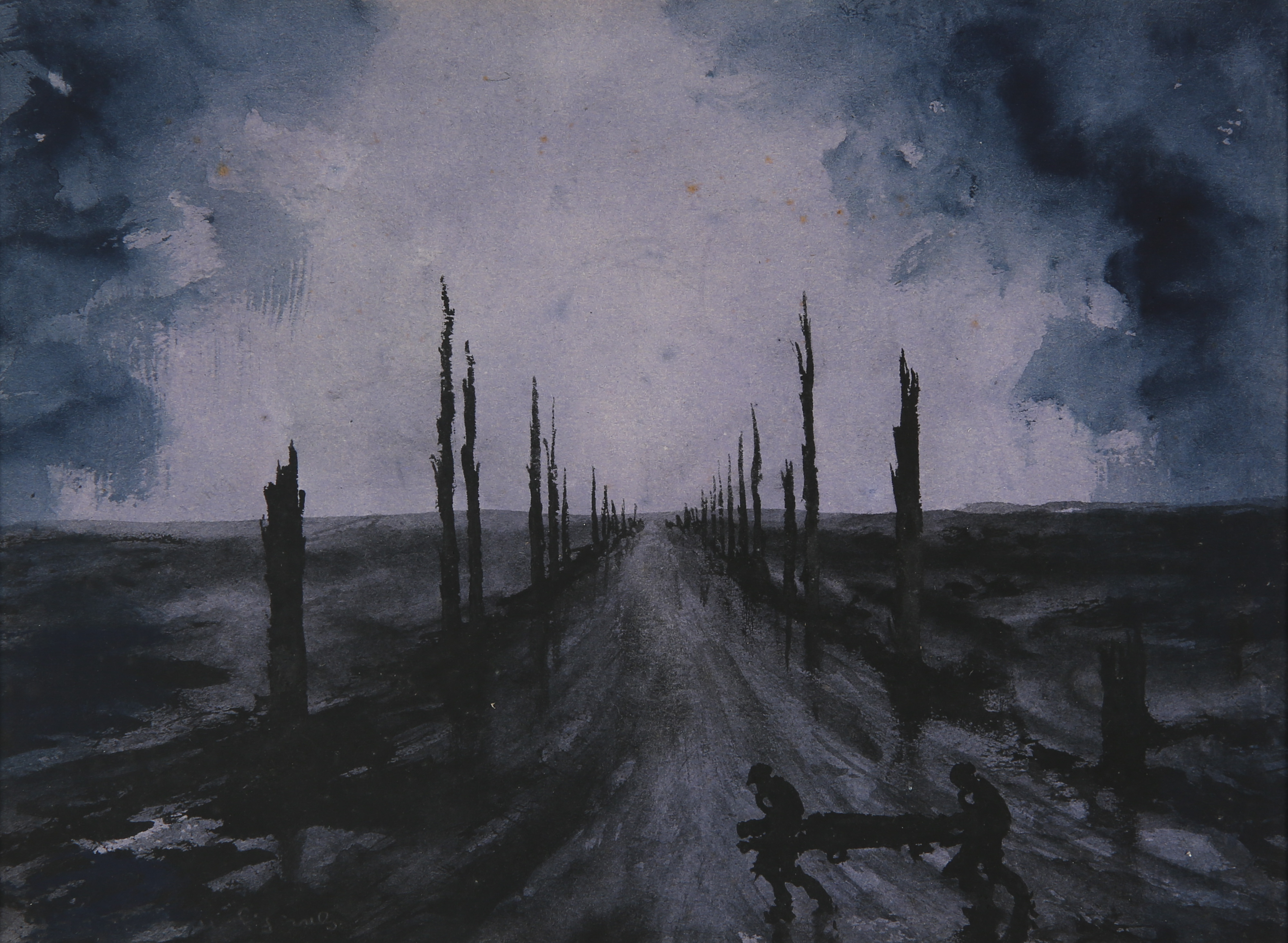 Watercolour and ink on paper. Signed upside down; inscribed with title